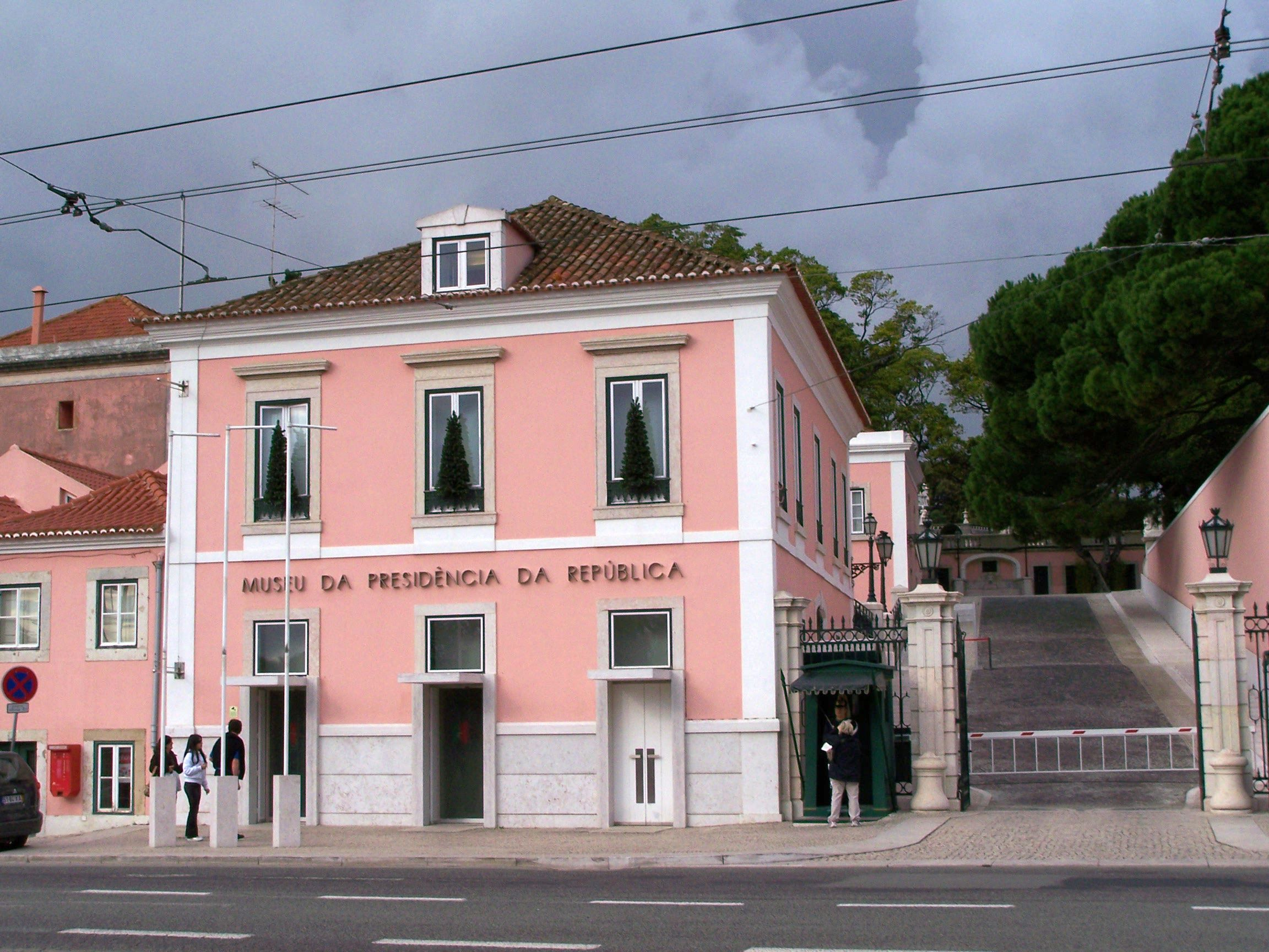 The Museum of the Presidency of the Portuguese Republic at Belém Palace, Lisbon, Portugal